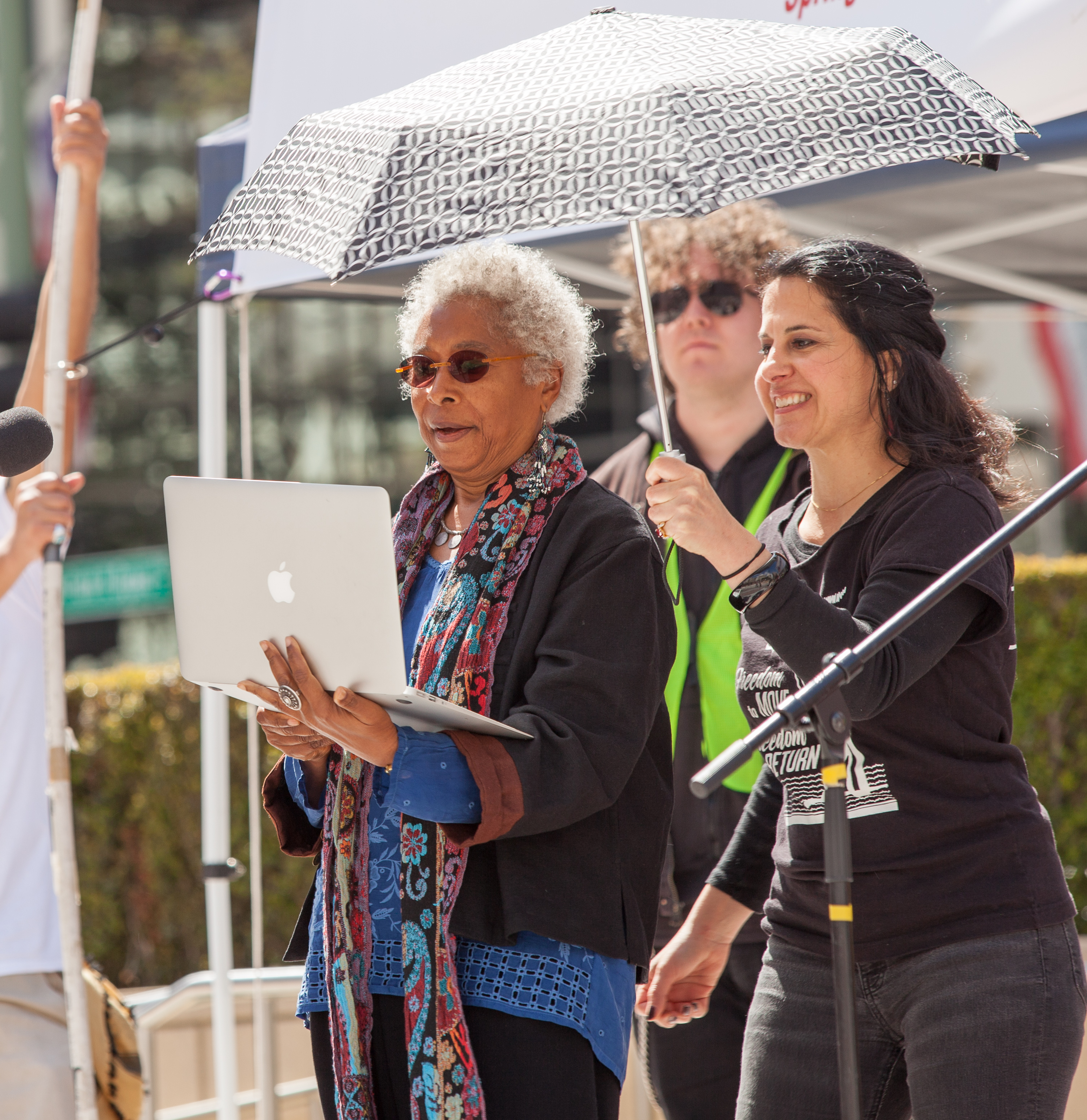 Alice Walker speaks at the "End the Wars at Home and Abroad" Spring Action 2018 in Oakland, California.